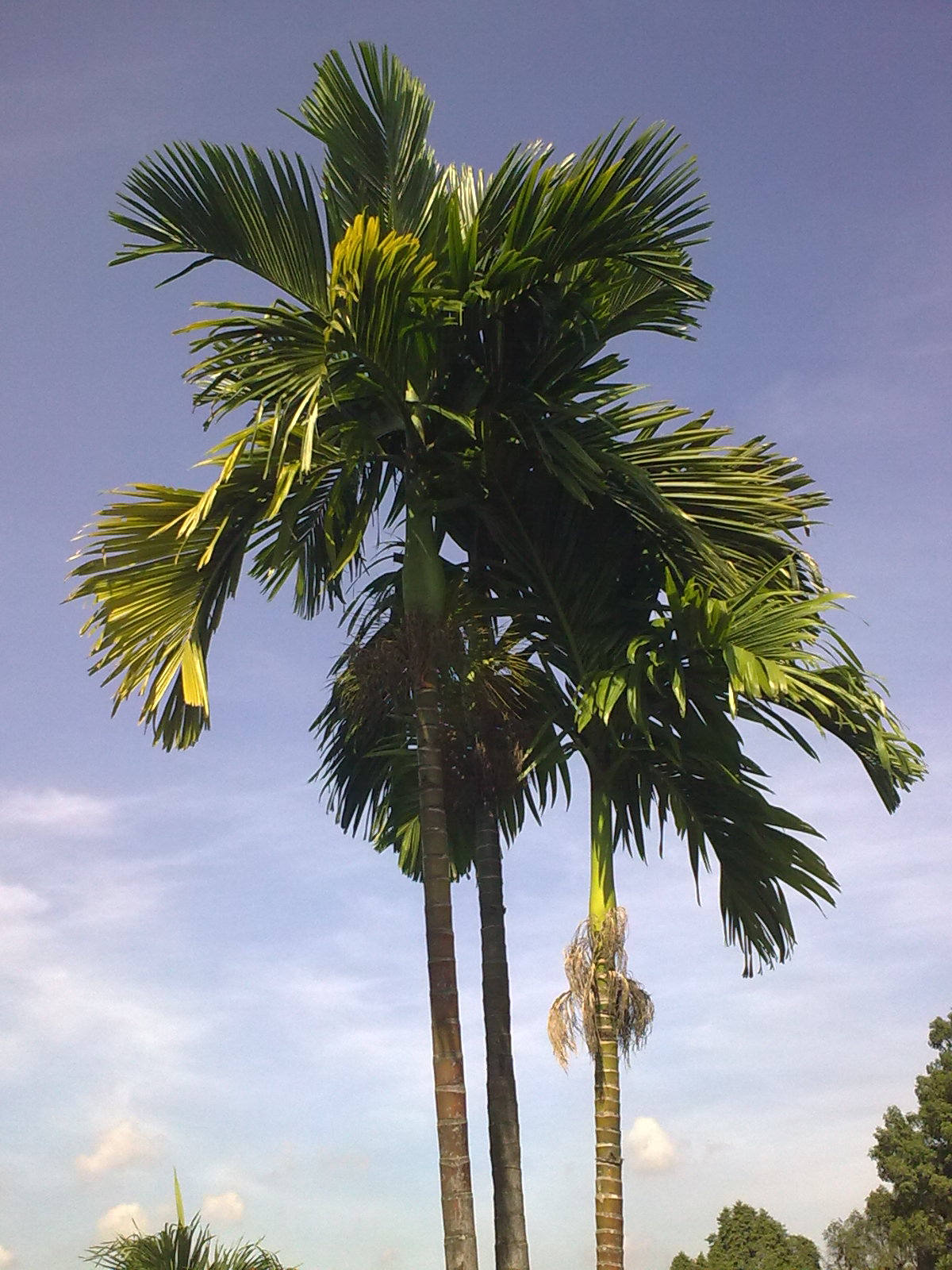 Palm tree in Kuala Lumpur